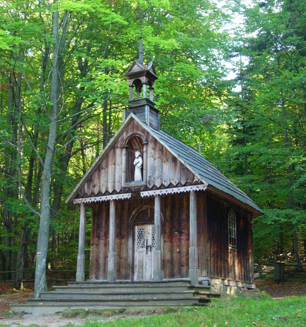 St. Francis chapel in Święta Katarzyna (Święty Krzyż Voivodship, Poland)